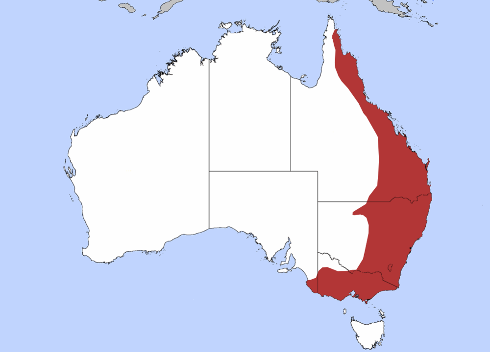 The Swamp Wallaby's Distrobution.